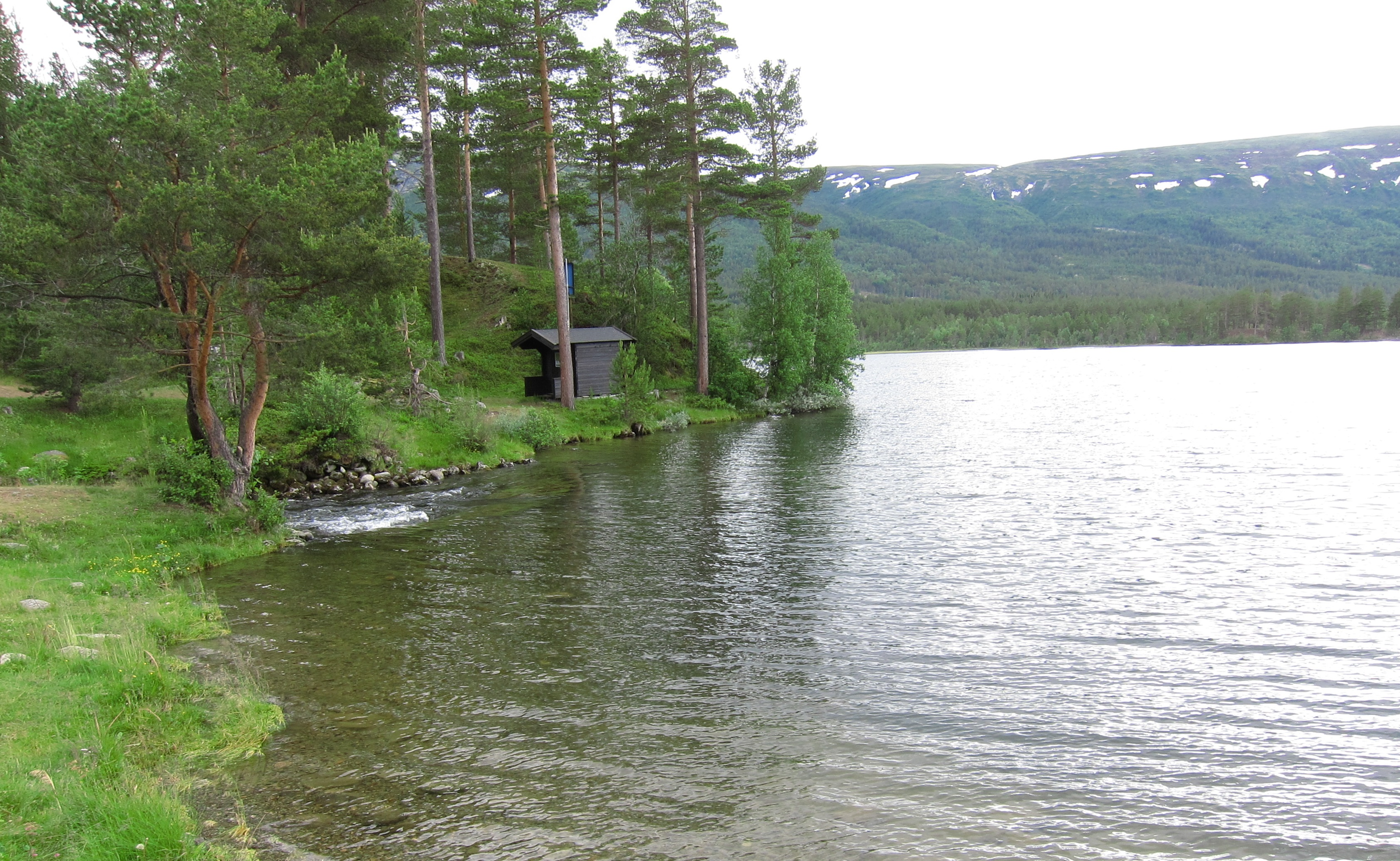 Lesjaskogsvatnet lake with outflow to Lågen, near Lesjaverk